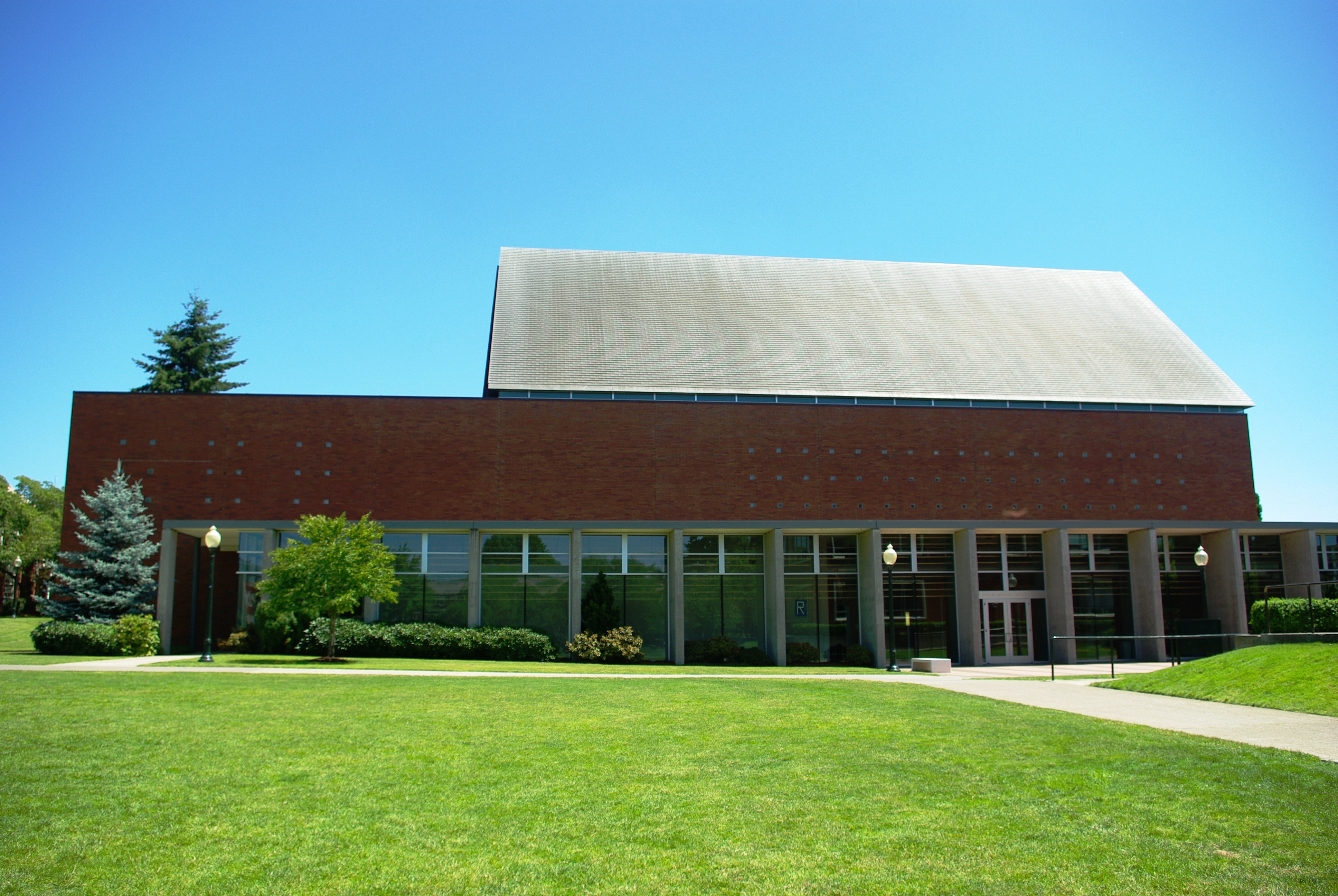 Mary Stuart Rogers Music Center, AKA Hudson Hall, at Willamette University in Salem, Oregon, USA